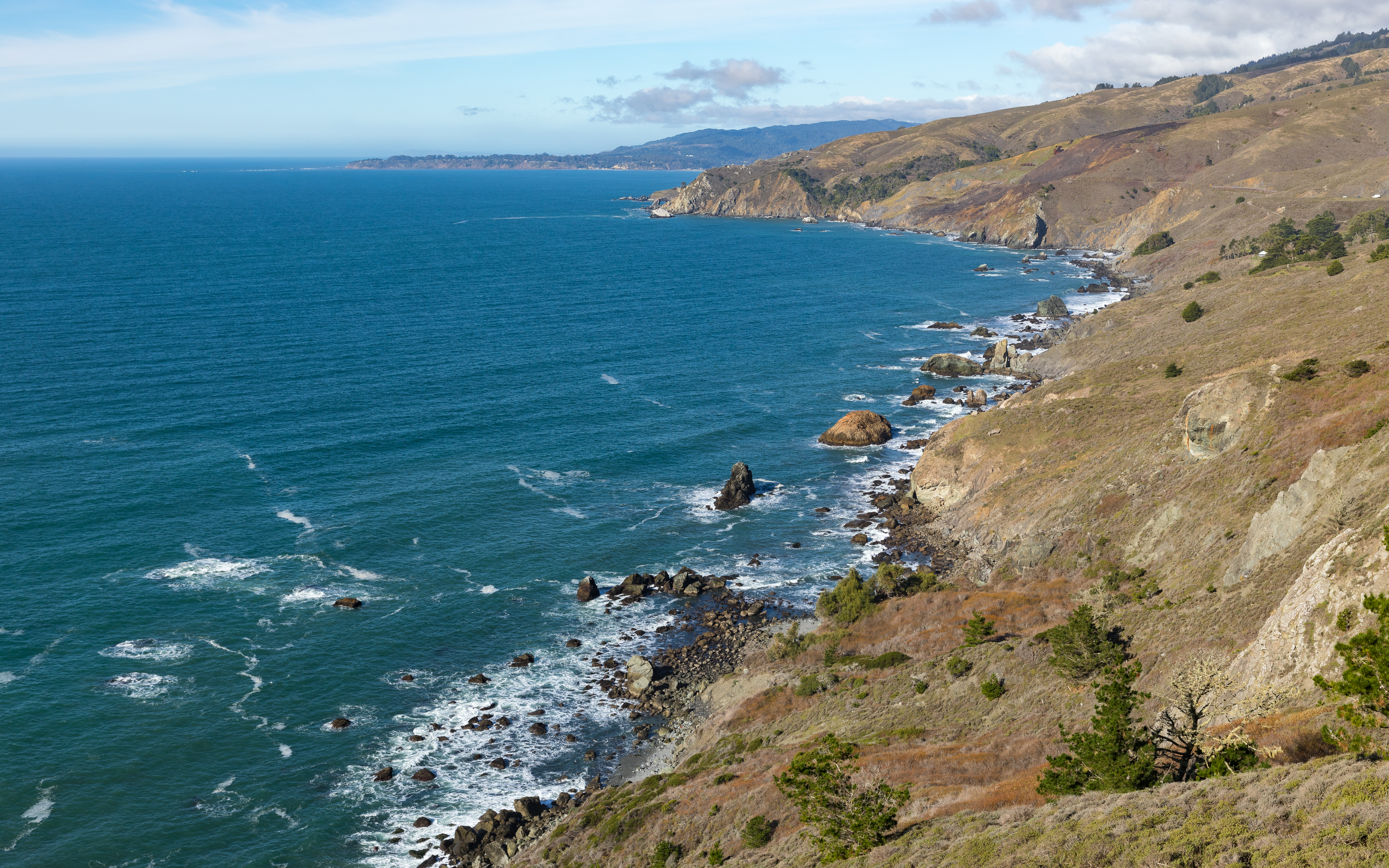 The pacific coastline as seen from Muir Beach Overlook (looking North), Marin County, California, in January 2020